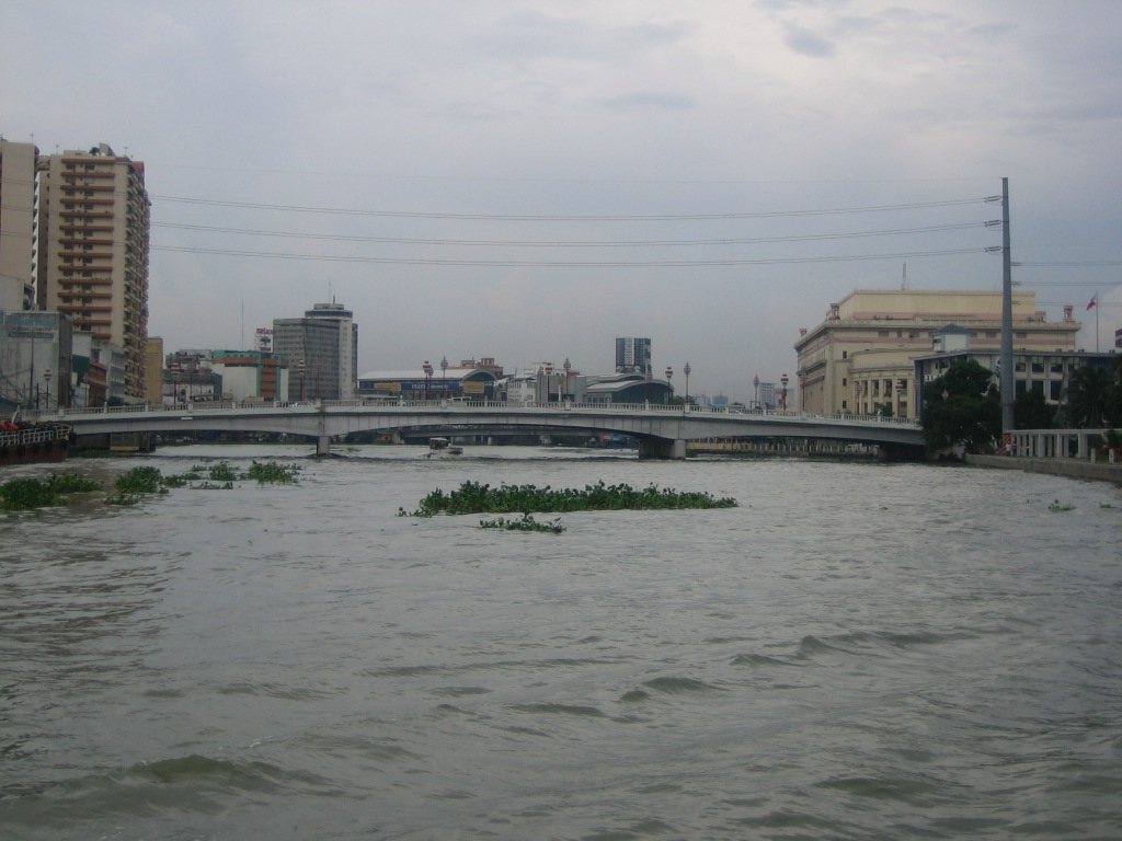 Jones Bridge over Pasig River in Manila.